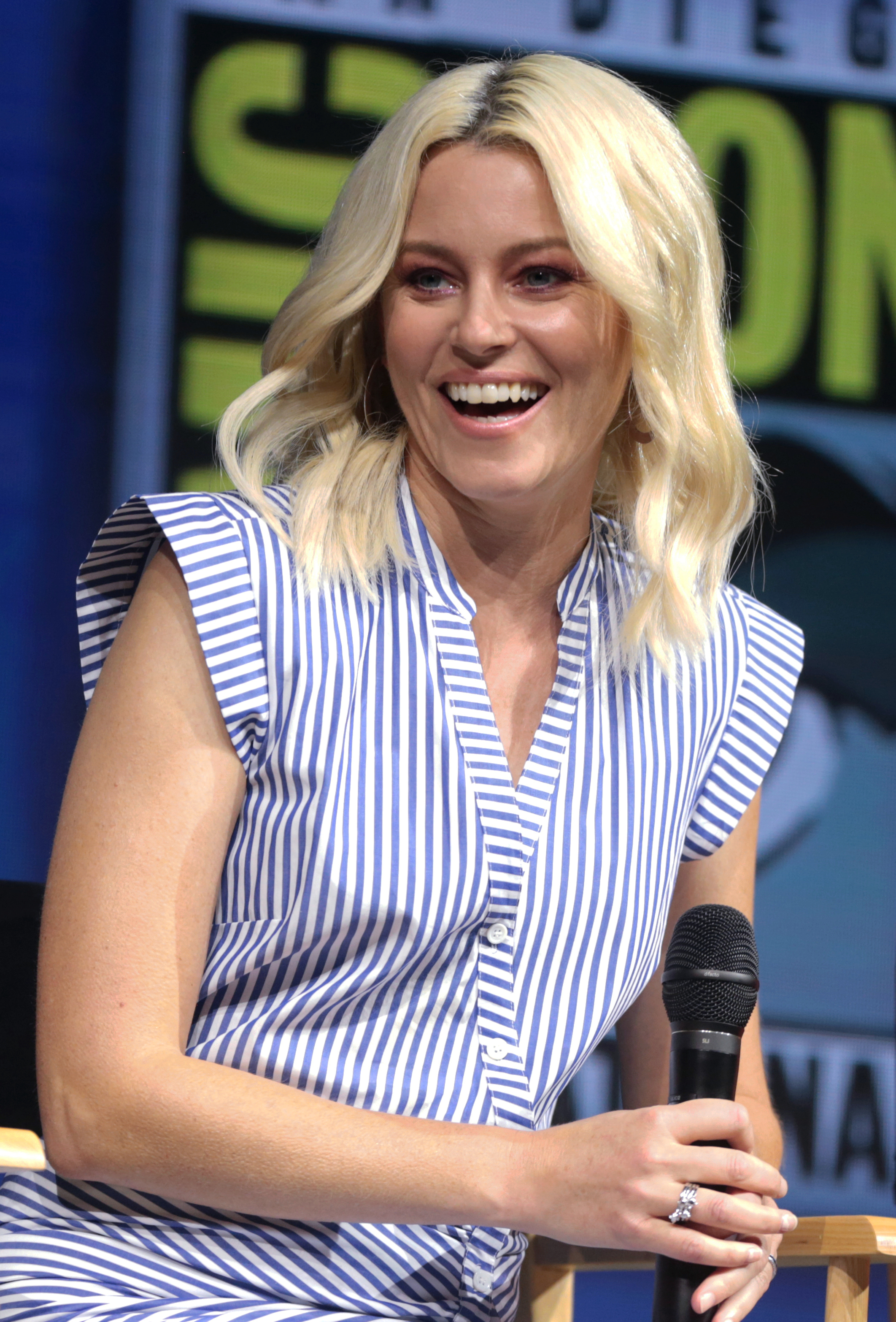 Elizabeth Banks speaking at the 2018 San Diego Comic-Con International in San Diego, California.